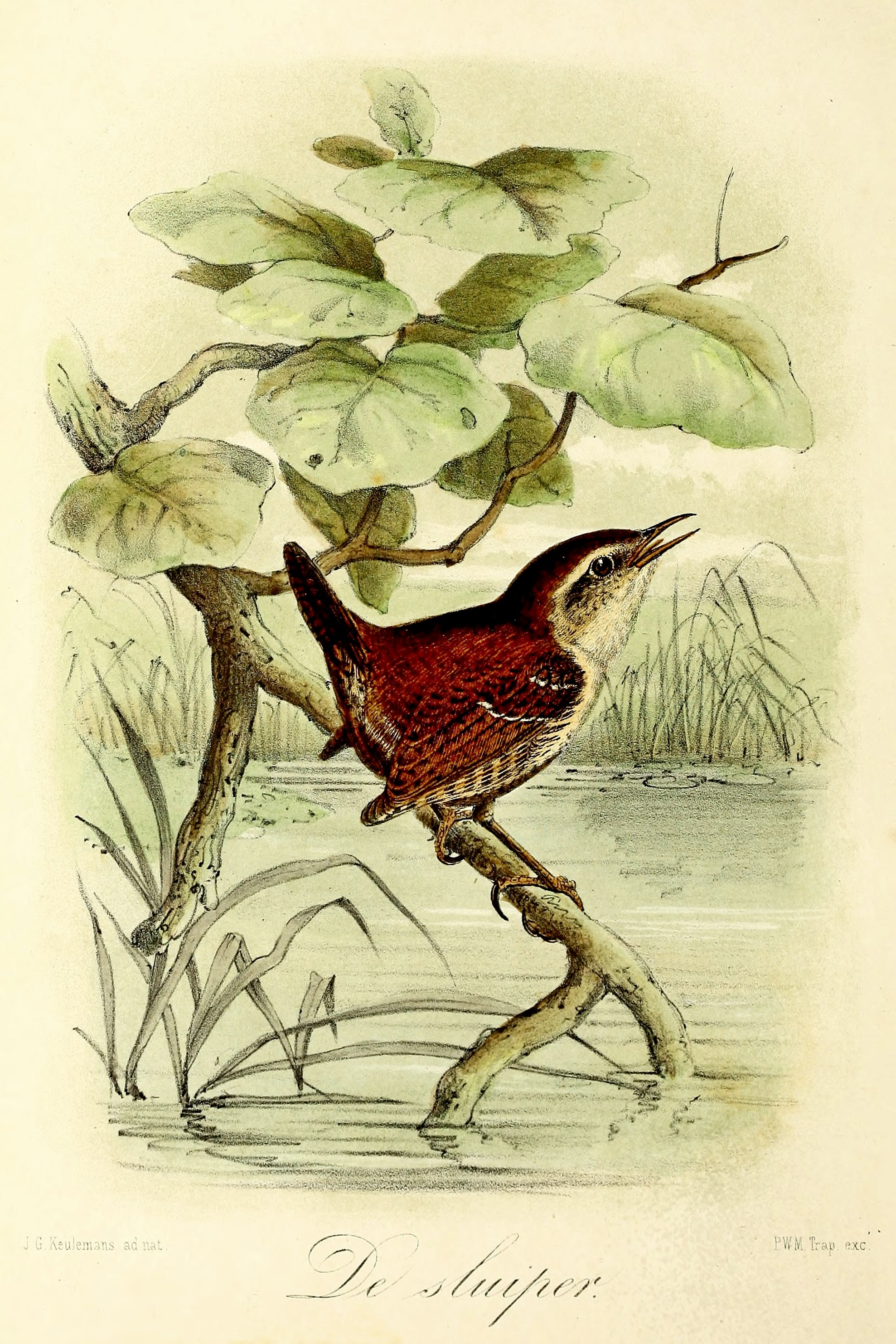 « Troglodytes europaeus » = Troglodytes troglodytes (Eurasian wren)